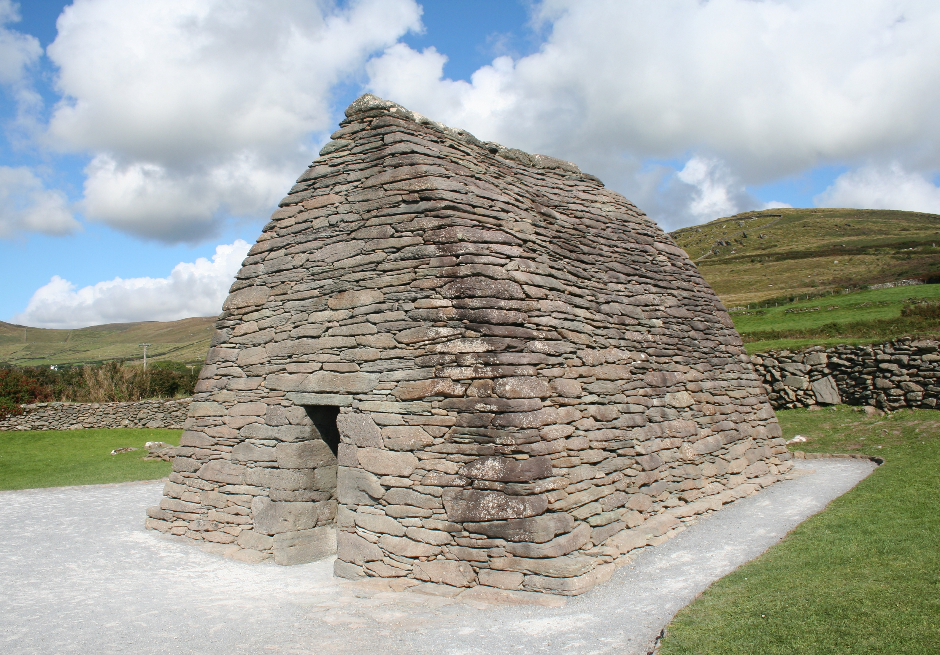 Gallarus Oratory from the gaelic Gall Arus translated "strangers hall" / Dingle Peninsula / County Kerry / Ireland